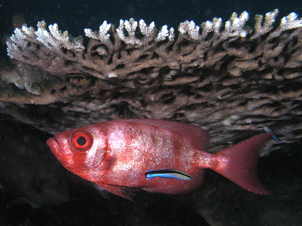 Big eye squirrelfish ( Priacanthus hamrur) being serviced by cleaner wrasse (Labroides dimidiatus) at cleaning station in Komodo National Park